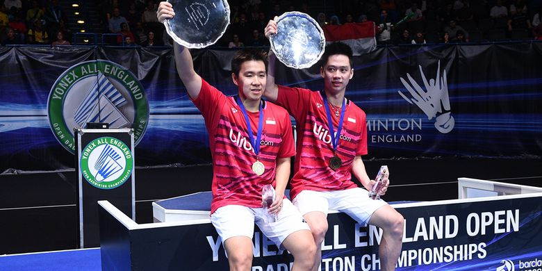 Kevin Sanjaya Sukamuljo and Marcus Fernaldi Gideon Defending All England Open Title in 2018